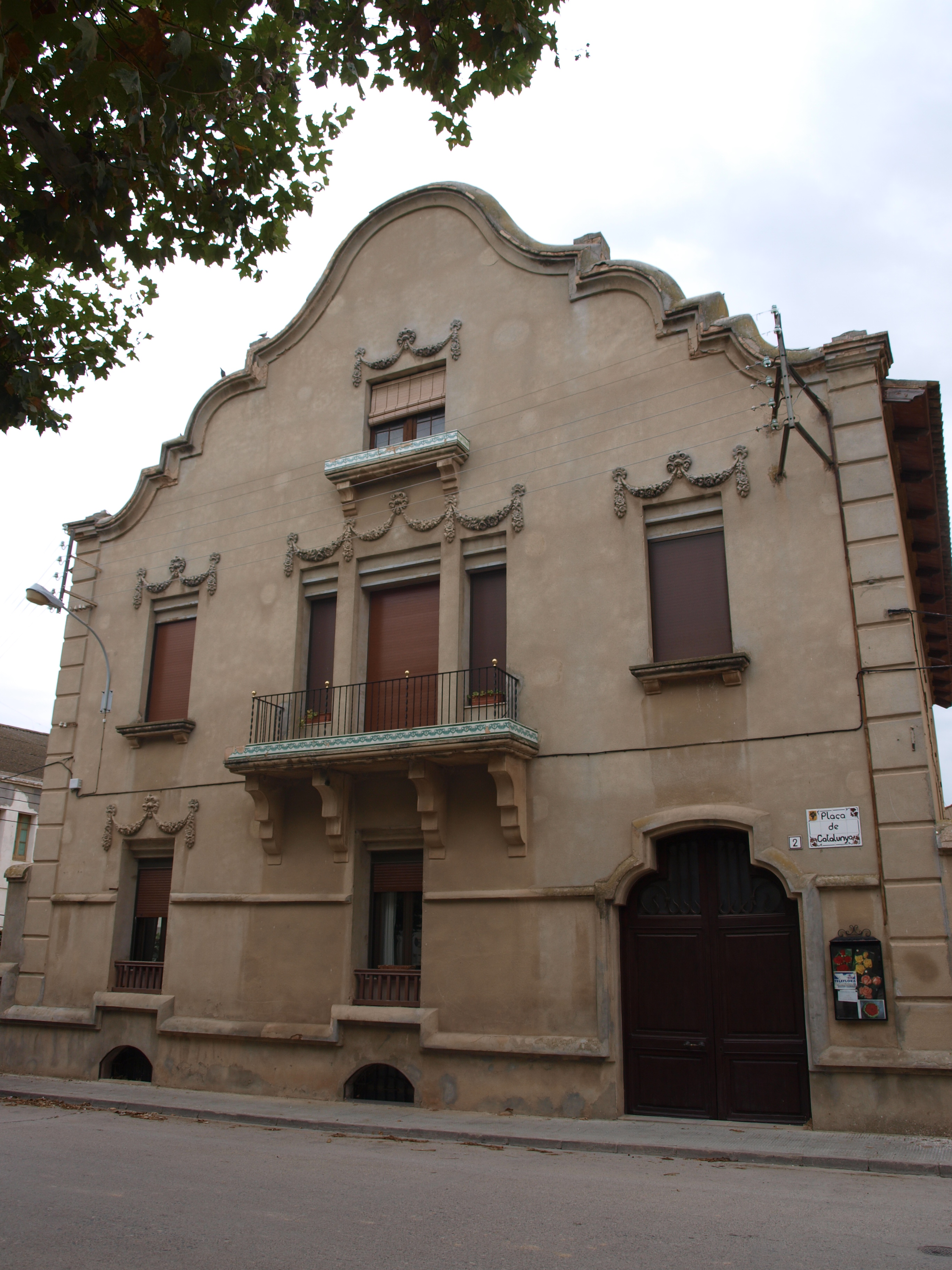 Cal Calvet house in Bellvís (Lleida)